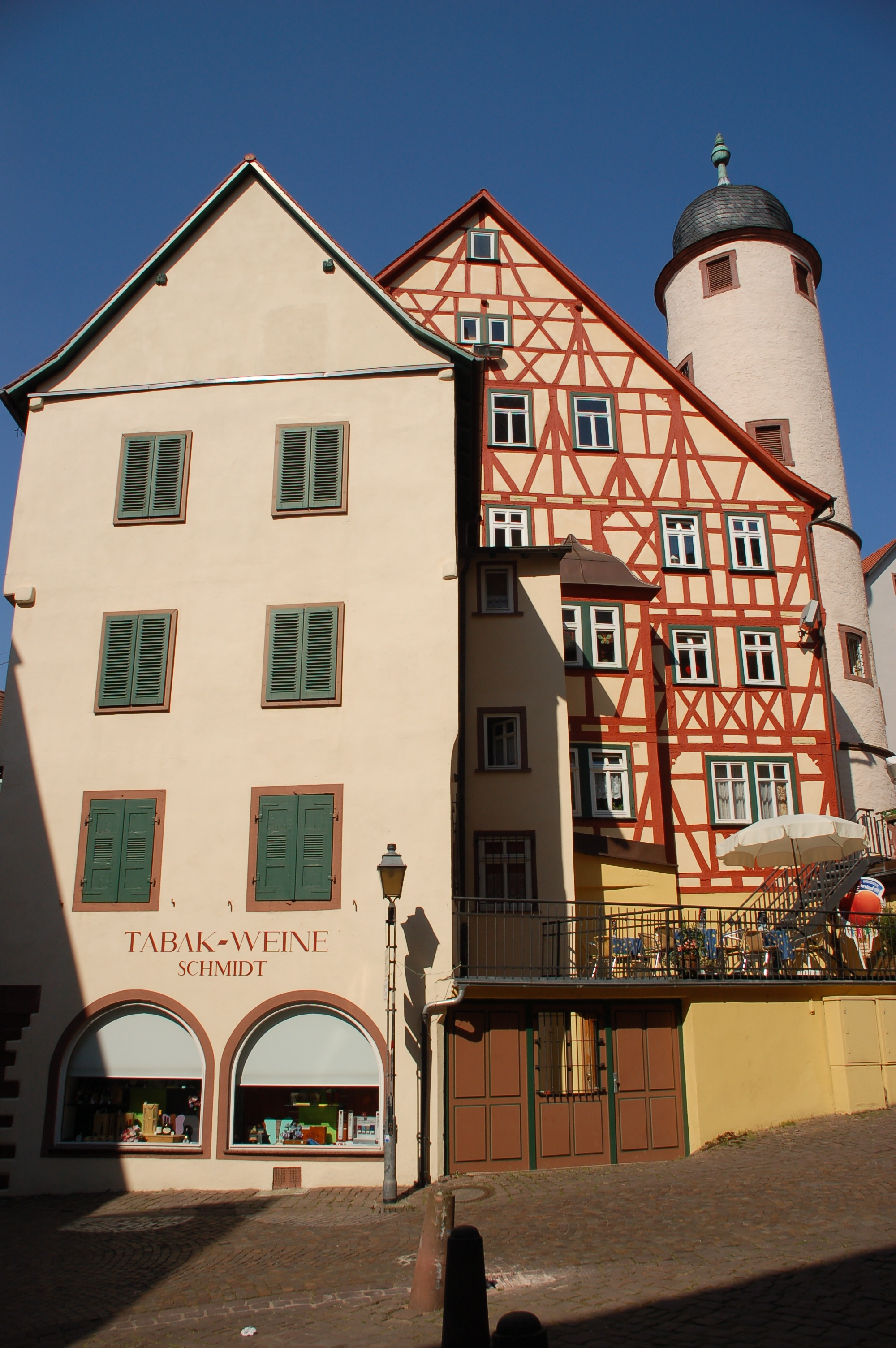 The Haus der 4 Gekrönten (House of the 4 Crowned (part of the County museum) in Wertheim